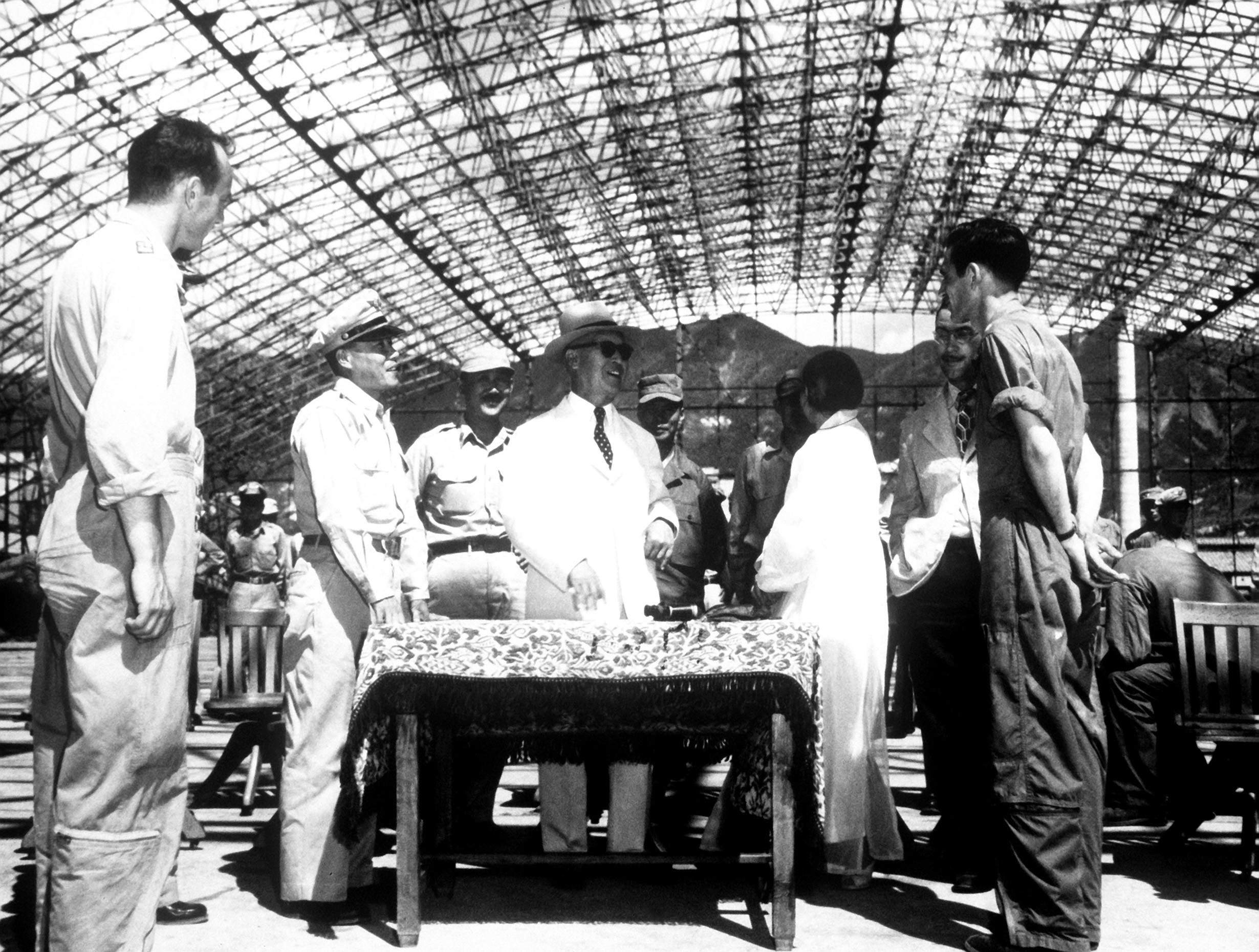 President Syngman Rhee is brought up to date on activities of the ROK Air Force by his Air Chief of Staff and American advisors while visiting a fighter strip in Korea. From left: Capt H.H. Wilson of Lanark IL assistant air advisor; Brig Gen Kim Chung Yul, ROK Air Force Chief of Staff; Col Chong Duk Ching, ROK wing commander; President Rhee; Madame Rhee; Dr Harold Noble, U.S. Embassy secretary and Maj Dean E. Hess, U.S. Air Advisor.